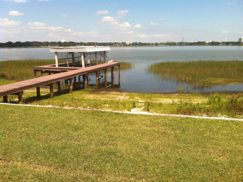 View from my backyard, of my dock and lake howard